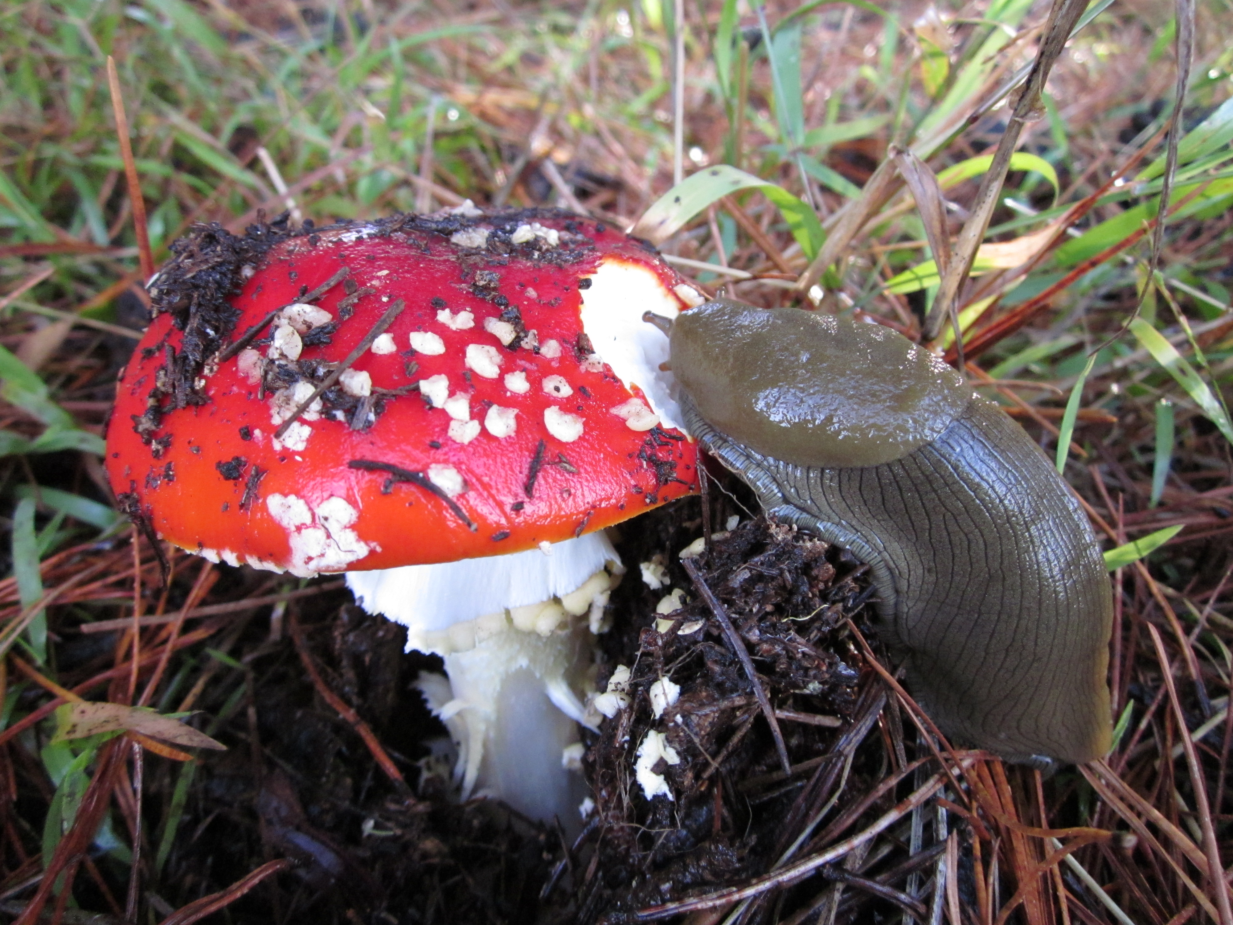 A banana slug (genus Ariolimax) feeding on Amanita amerimuscaria Tulloss & Geml nom. prov. Photographed in Grizzly Peak Blvd., Berkeley, California, USA.